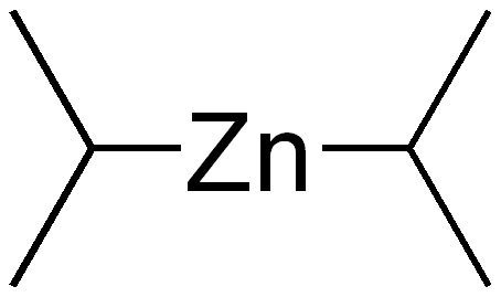 chemical structure of diisopropylzinc